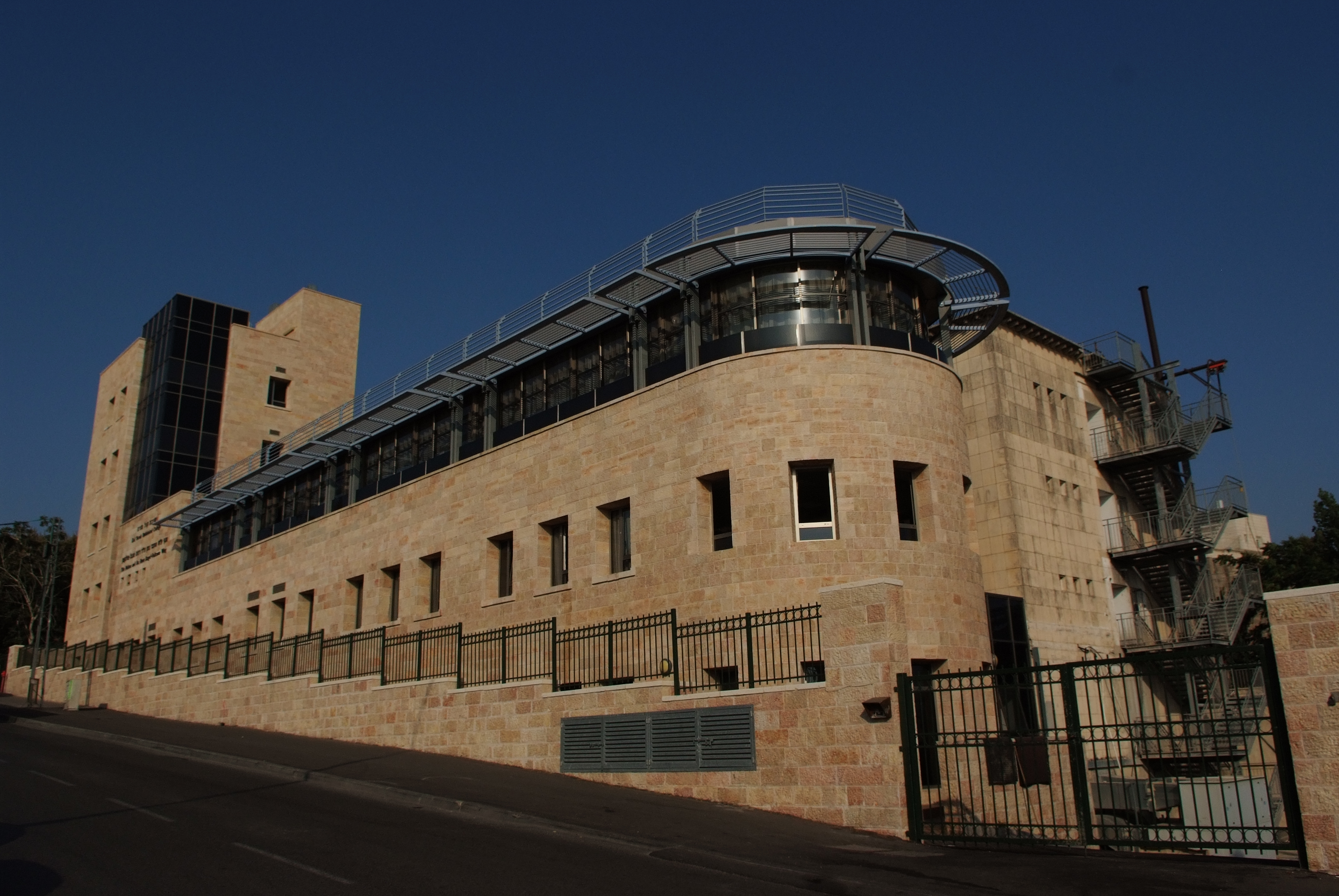 new Bilding of Kol Torah Rabbinical College